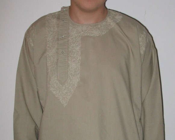 Side-opening traditional Chikan kurta with semi-precious stone cuff-links-style buttons